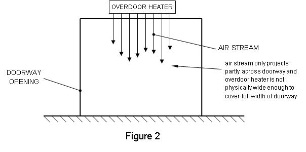 operation of an overdoor heater